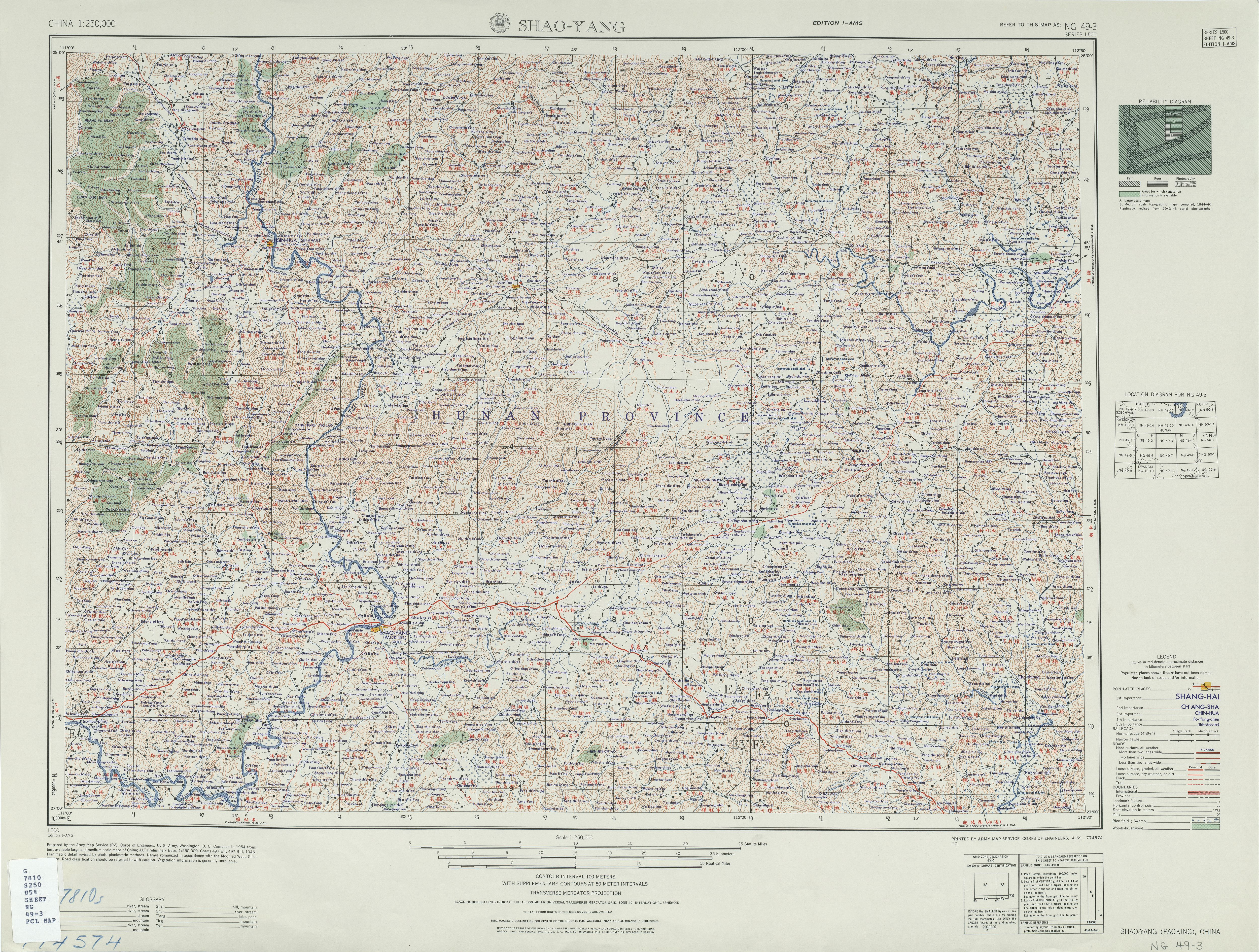 China AMS Topographic Maps